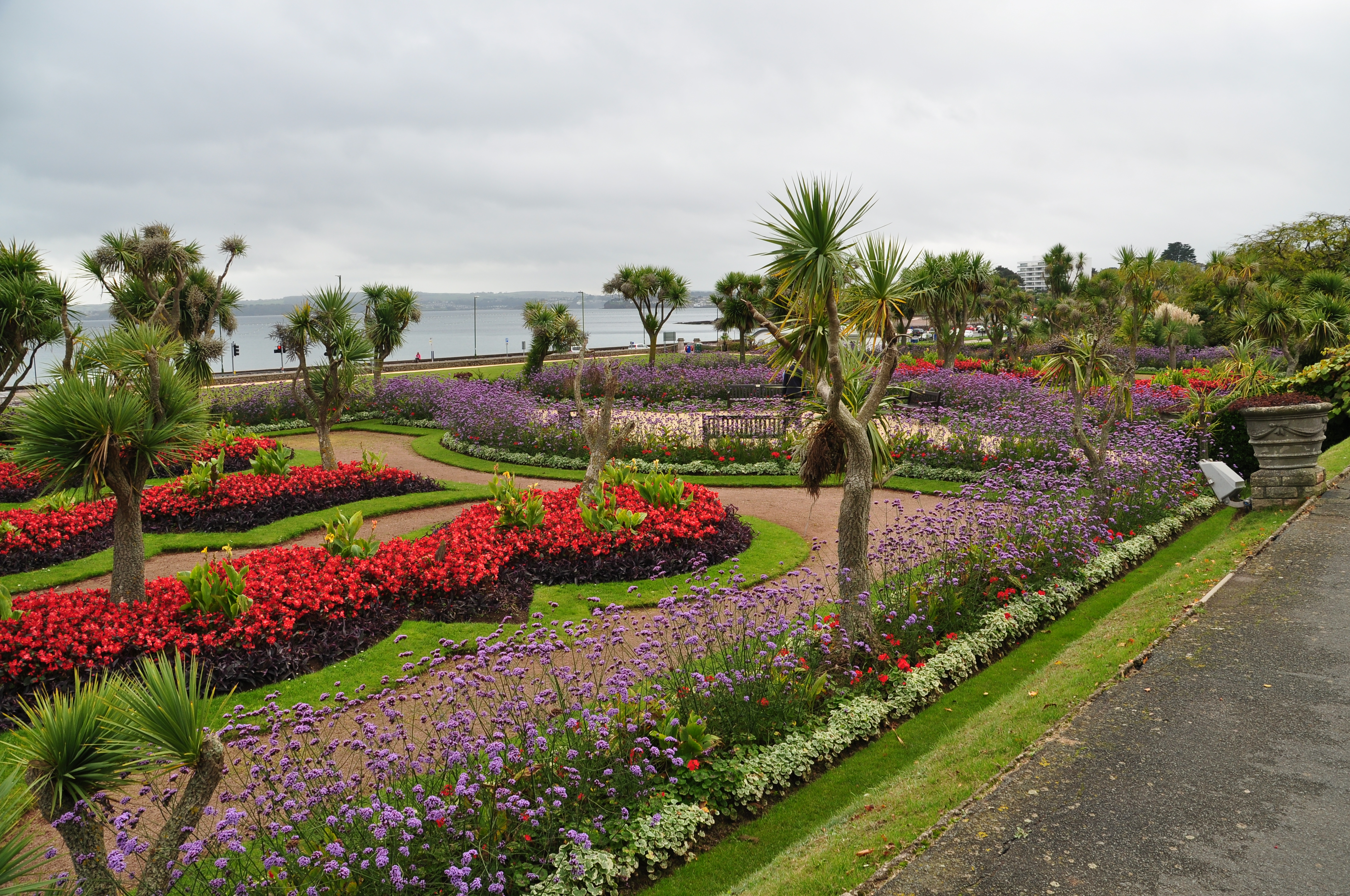 Flowers in Abbey Gardens